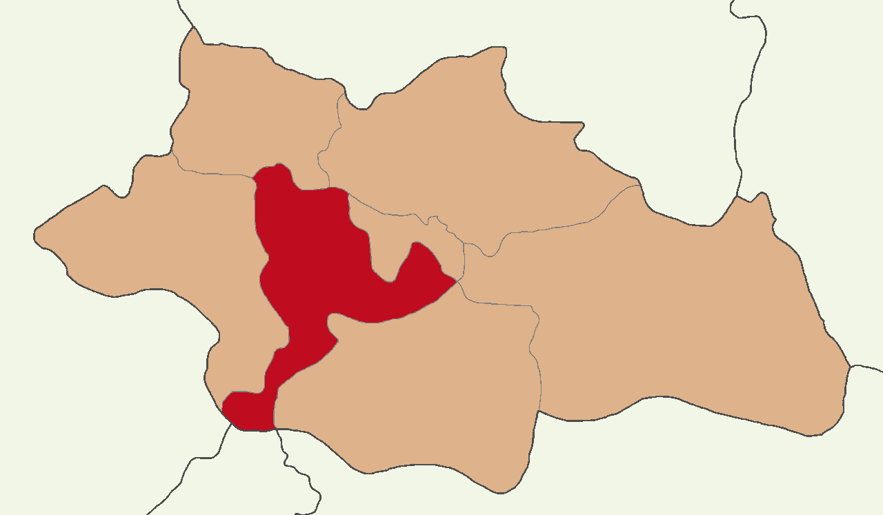 Siirt Merkez ilçesinin konumu